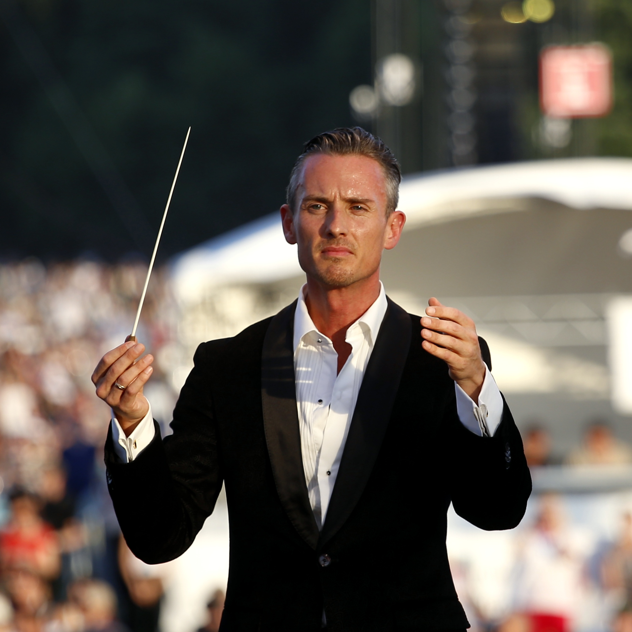 Conductor Alexander Shelly during Klassik Airleben in Leipzig, 2016